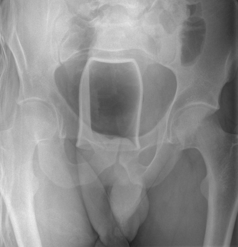 Rectally inserted and lost toothbrush cup